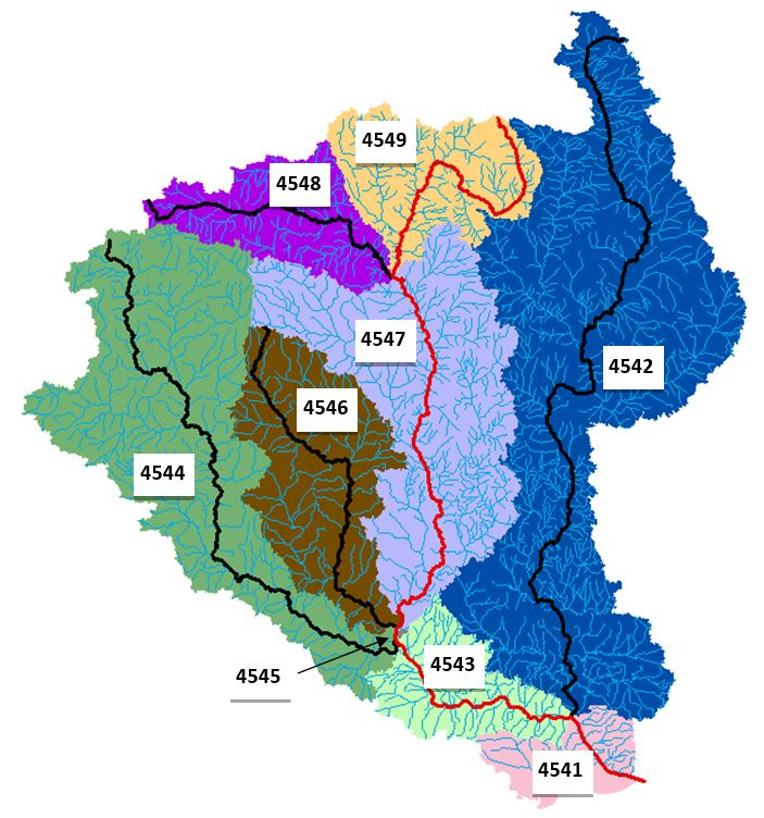 Bacia do Rio Trombetas com respectivos códigos de bacias pelo método de Otto Pfafstetter